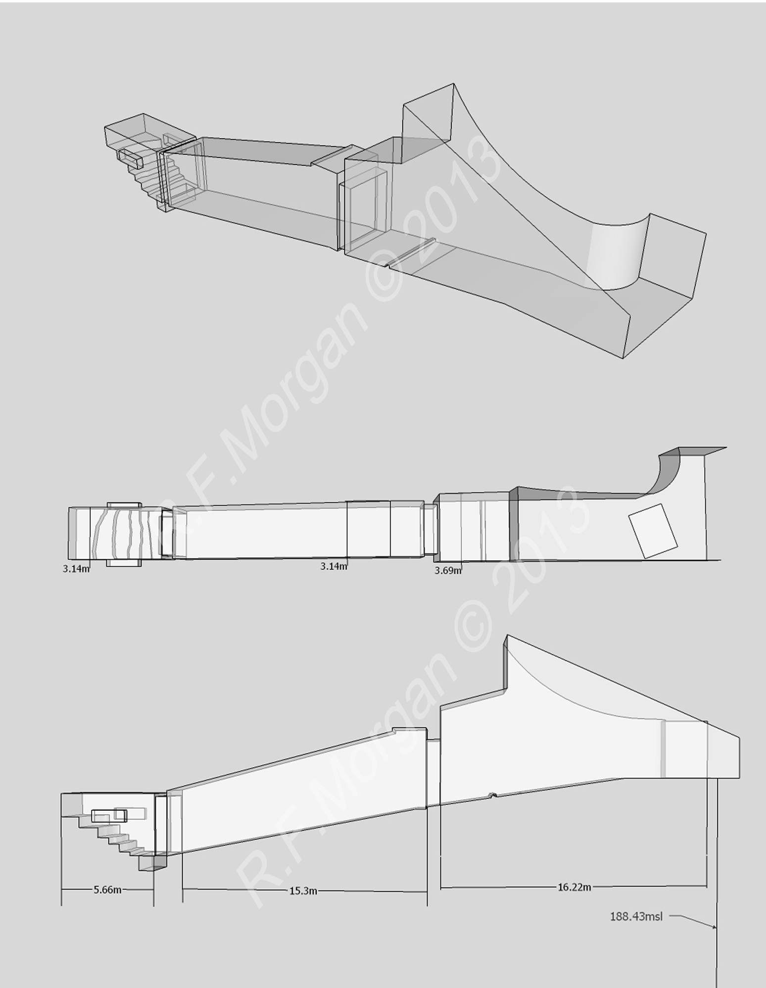 Isometric, plan and elevation images of KV19 taken from a 3d model